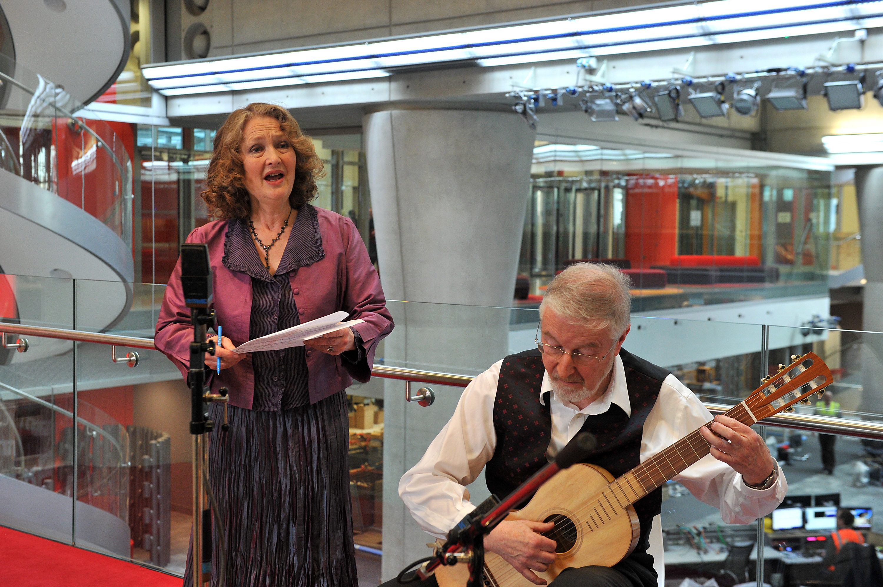 Dame Emma Kirkby performs in New Broadcasting House on Monday 19 March 2012. Photo by Mark Allan/BBC